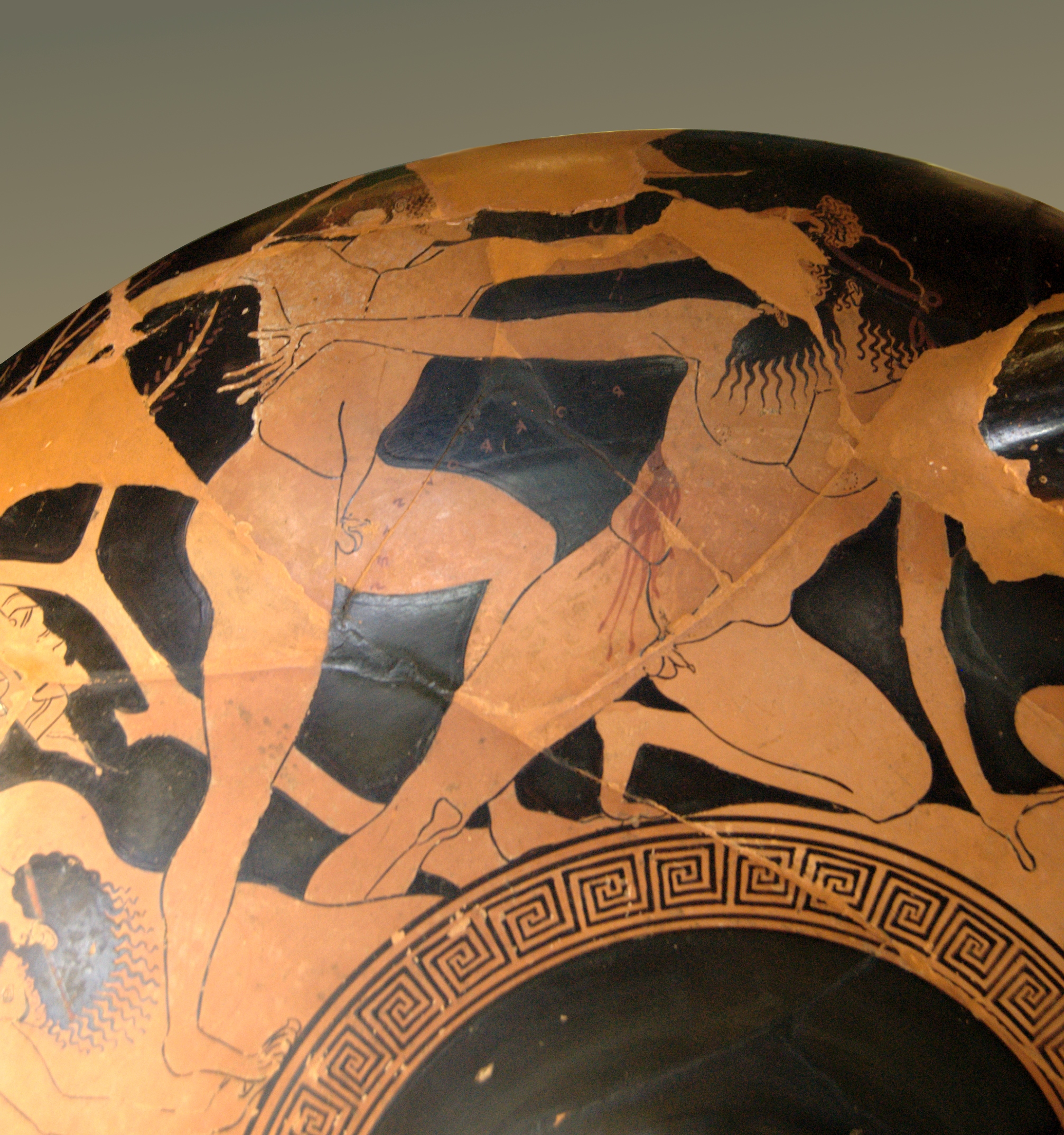 Procrustes beaten by Theseus. Detail of the side A from an Attic red-figure cup, 500–490 BC. From Cerveteri (ancient Caere), Latium.